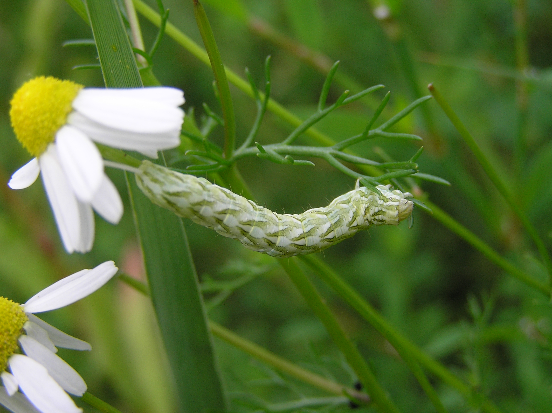 Cucullia chamomillae larva (Poelbos, the Netherlands)